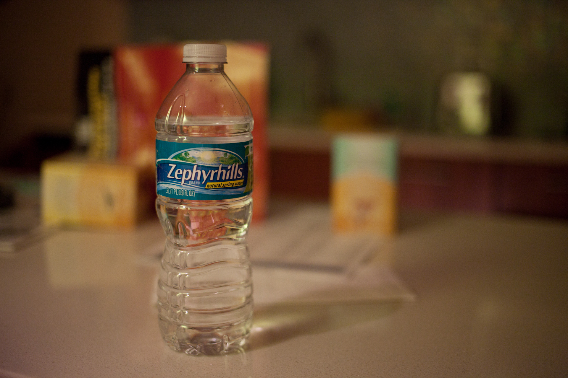 Camera: Canon EOS 5D Mark II 0 ISO: 2500